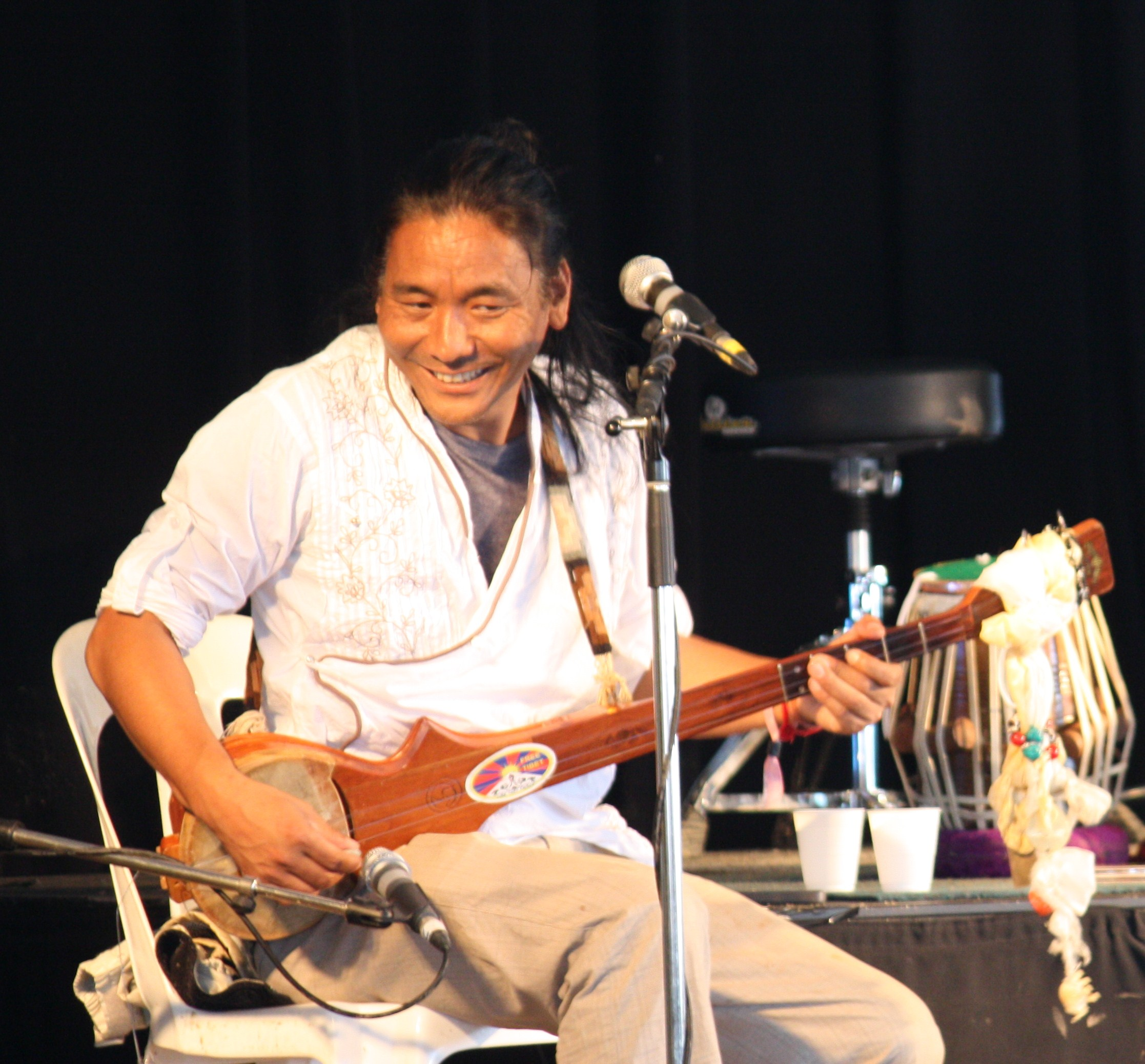 Tenzin has extraordinary vocal abilities and also plays traditional Tibetan instruments. Tenzin was born in Tibet, escaped to Nepal and was raised in exile in Dharamsala, India. As a child, Tenzin would listen to his mother singing in the nomadic style of Tibet and he attributes much of his passion for for his music to her. His musical concerts and tours in Australia often include education on Tibetan culture and history. Tenzin also raises aids through his tours for Tibetan monks in exile as well as the Tibetan Children’s Village, the school for Tibetan refugee children that he attended as a child.